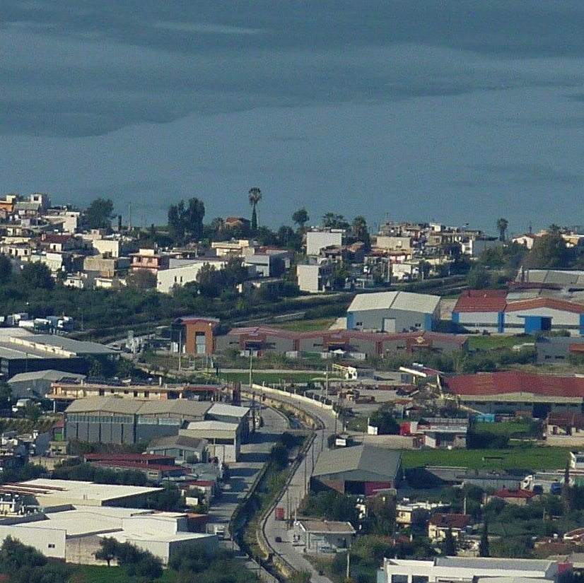 Panagitsa torrent in Paralia Patras, Achaia, Greece.